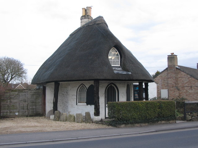 Toll house at Islington. A view looking southeast across the B3106 Islington to the thatched toll house.